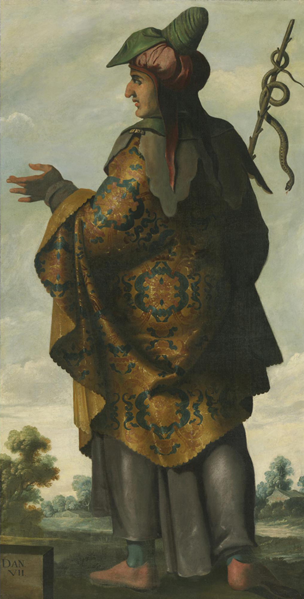 1640-1645 painting of the biblical patriarch by Francisco de Zurbarán